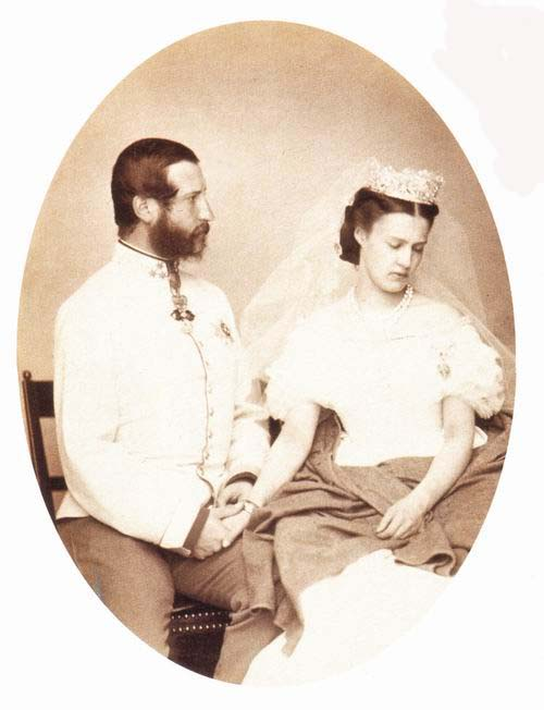 The Duke Phillip of Württemberg and his wife the Archduchess Marie Therese of Austria-Teschen